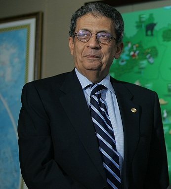 ARAB League & SOUTH AMERICA Summit, 2005